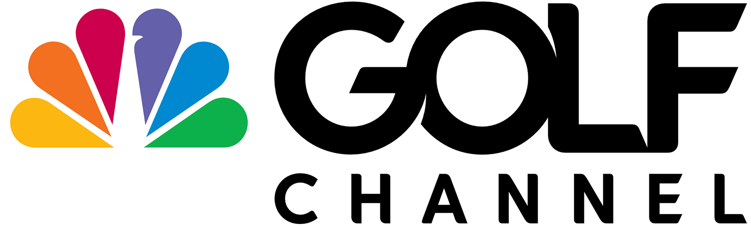 Golf Channel's new logo, unvield on December 17, 2013.